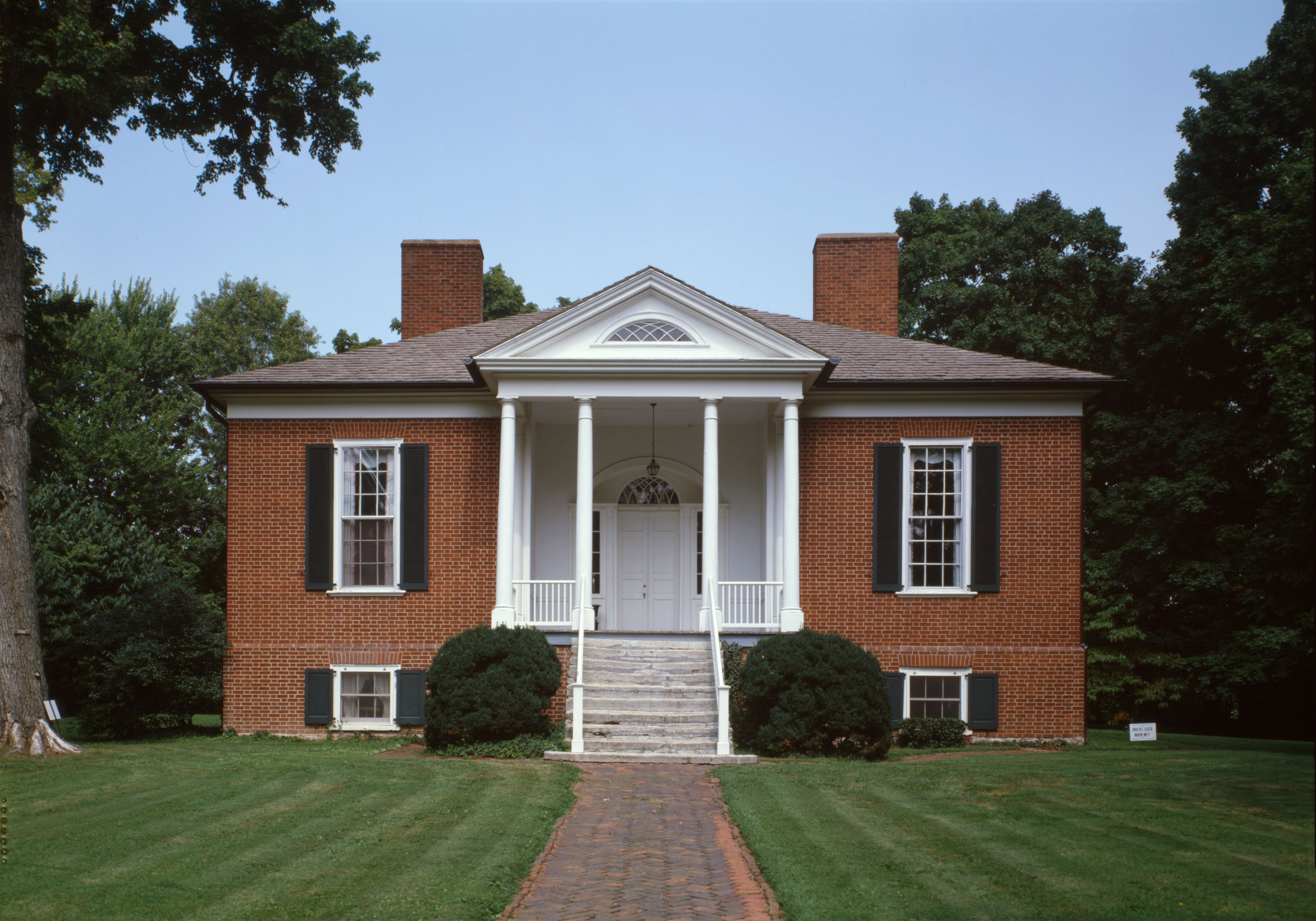 Farmington Plantation in Louisville, Kentucky. Designed by Thomas Jefferson in the Federal Style, built in 1816.